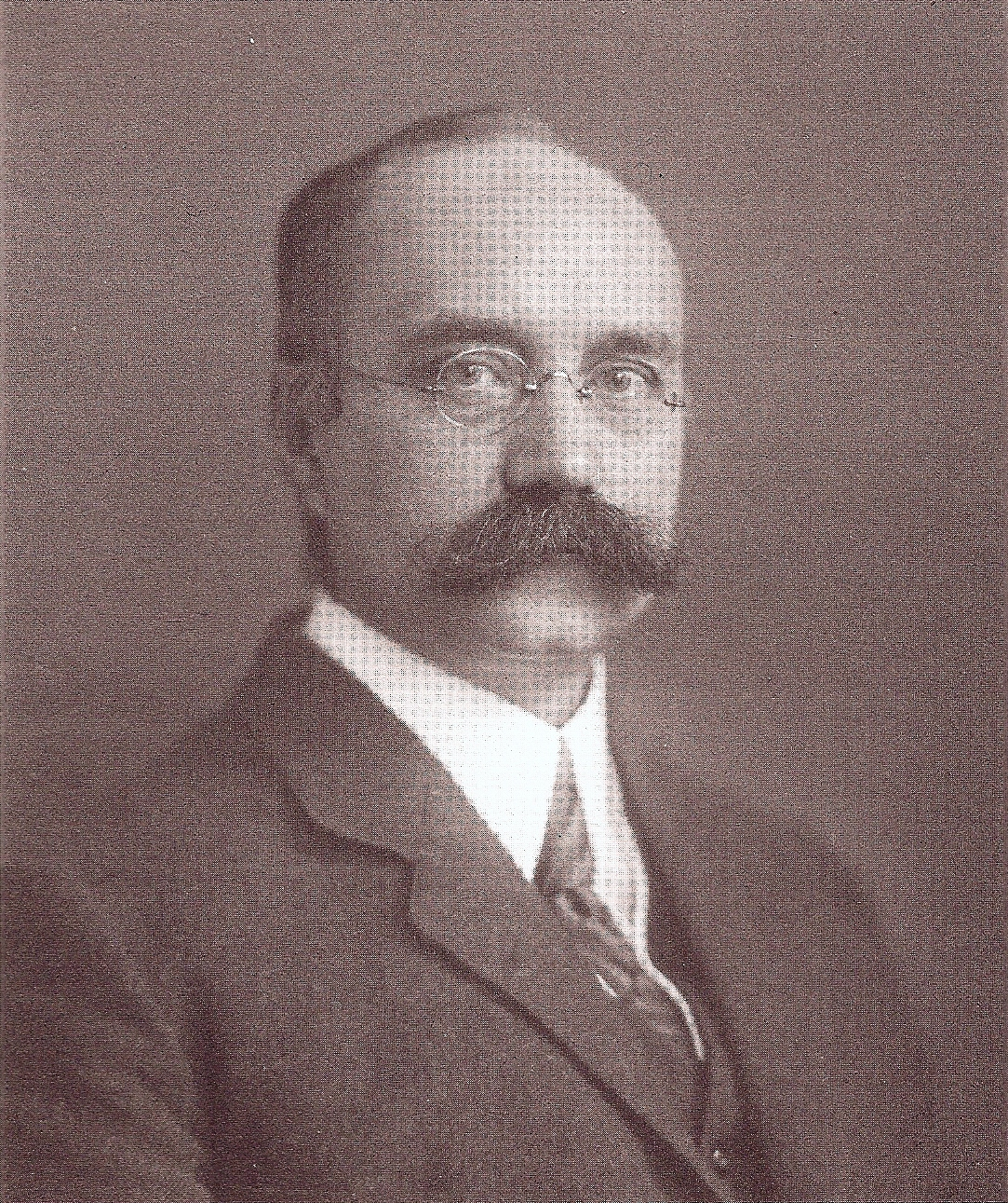 H.J. Backer